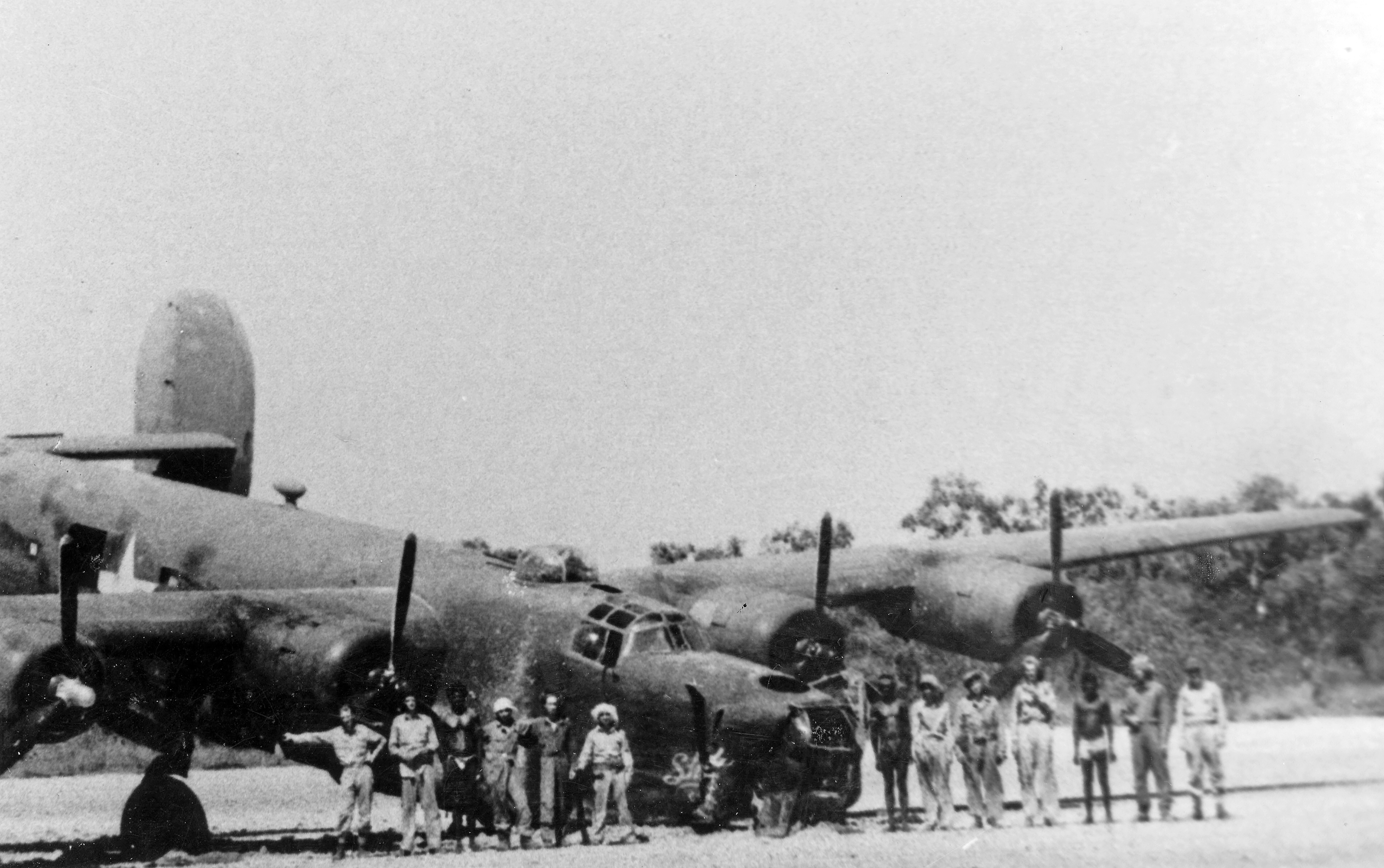 Crash landed B-24 Liberator aircraft known as 'Shady Lady' of the 528th Squadron of the 380th Bombardment Group in Northern Australia on 14 August 1943.